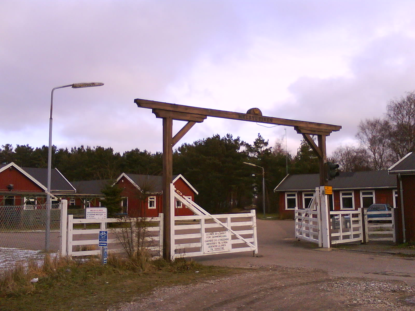 Main entrance to the former military camp of Melbylejren, Asserbo, Denmark